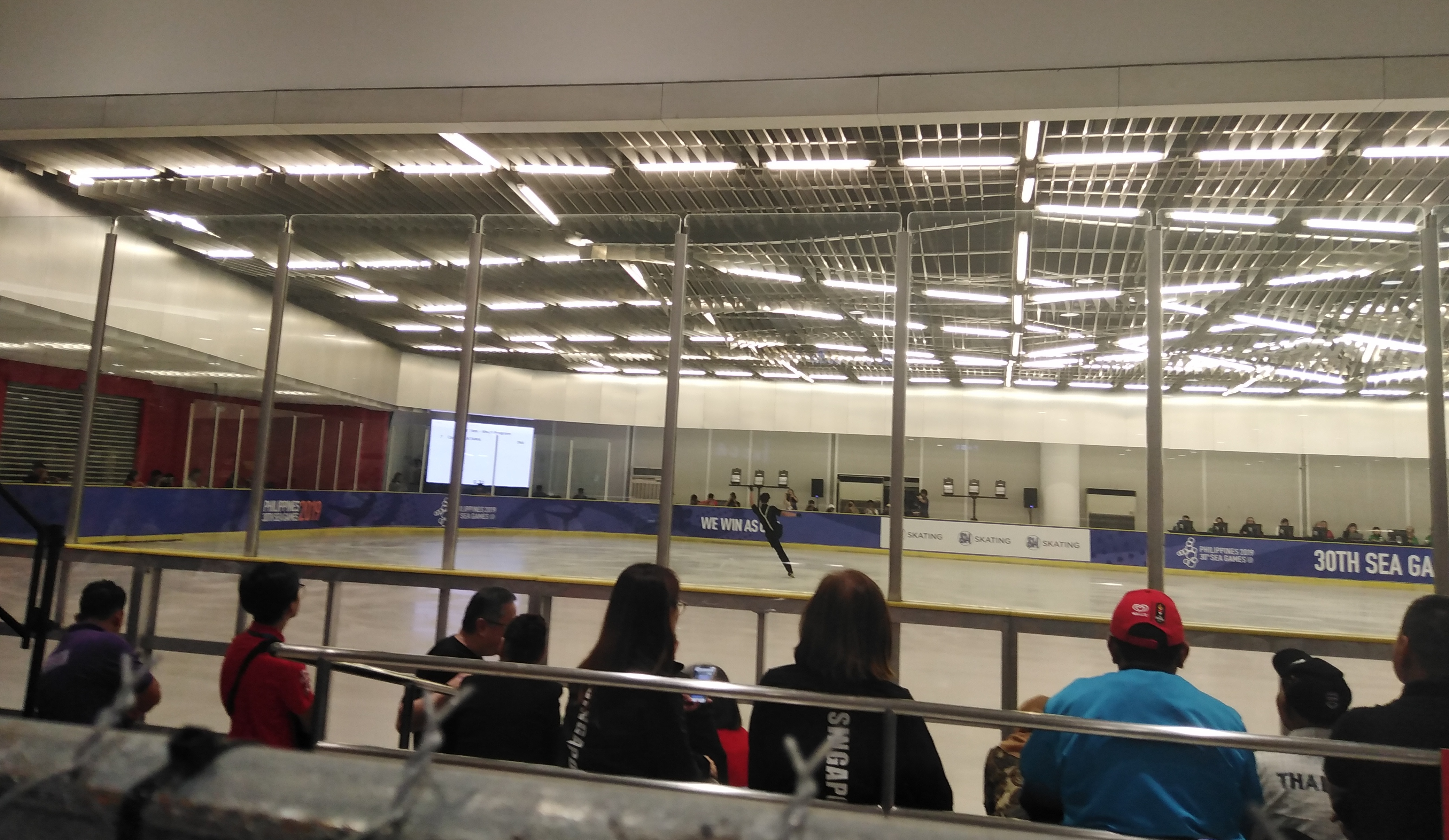 The SM Megamall Ice Rink, the venue for the figure skating events at the 2019 Southeast Asian Games.